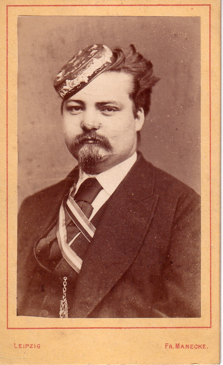 Samuel Hansaon Stone as "Corpsstudent"